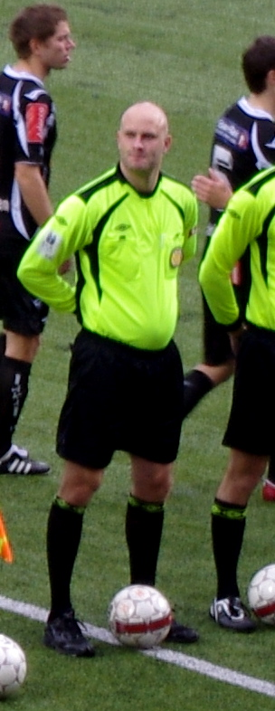 Norwegian referee Trond Ivar Døvle